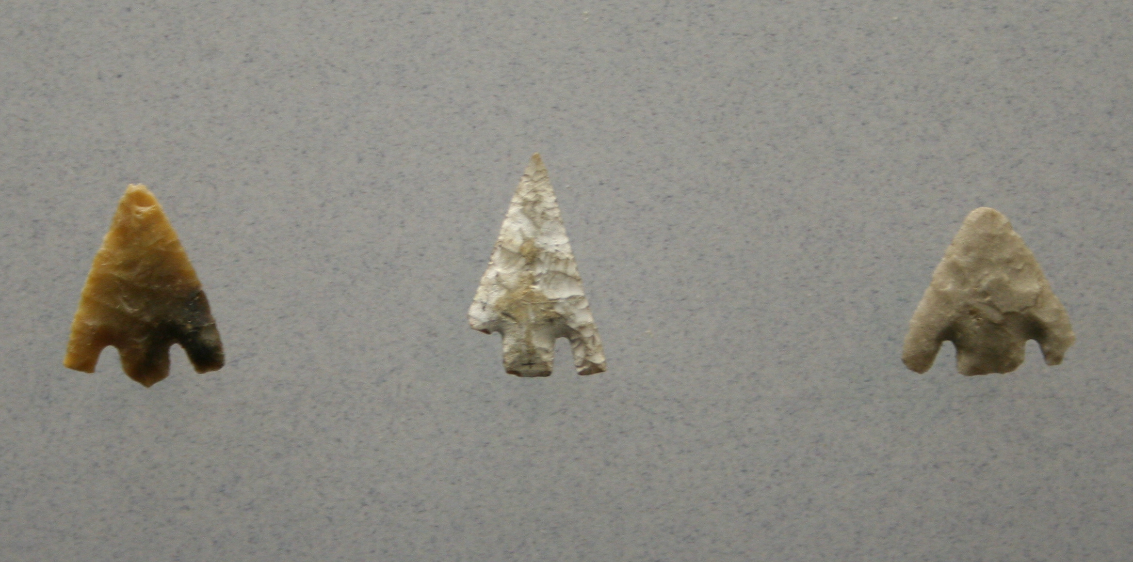 Archaeological state museum Schleswig-Holstein, Gottorf Castle